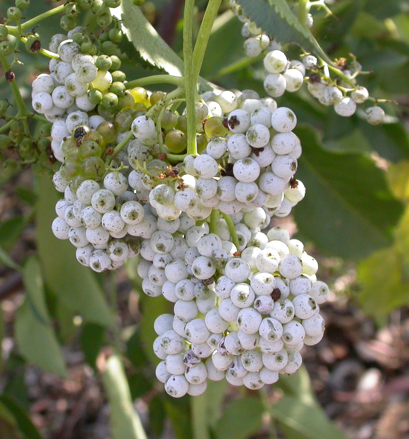 Photographed at BioTrek. Contributed and © by Curtis Clark. Licensed as noted.